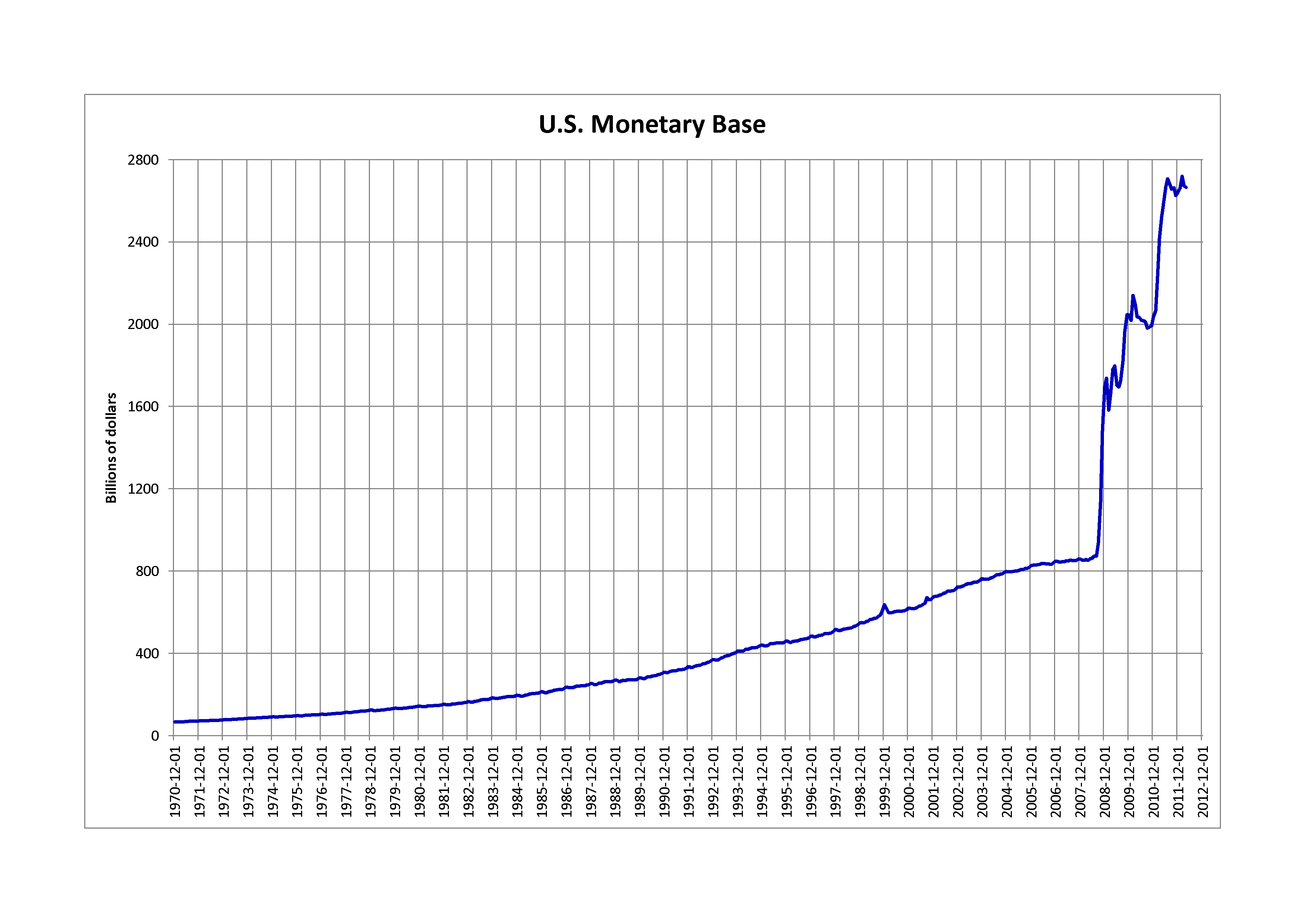 U.S. Monetary base from December 1970 to April 2012 (monthly data in billions of dollars)